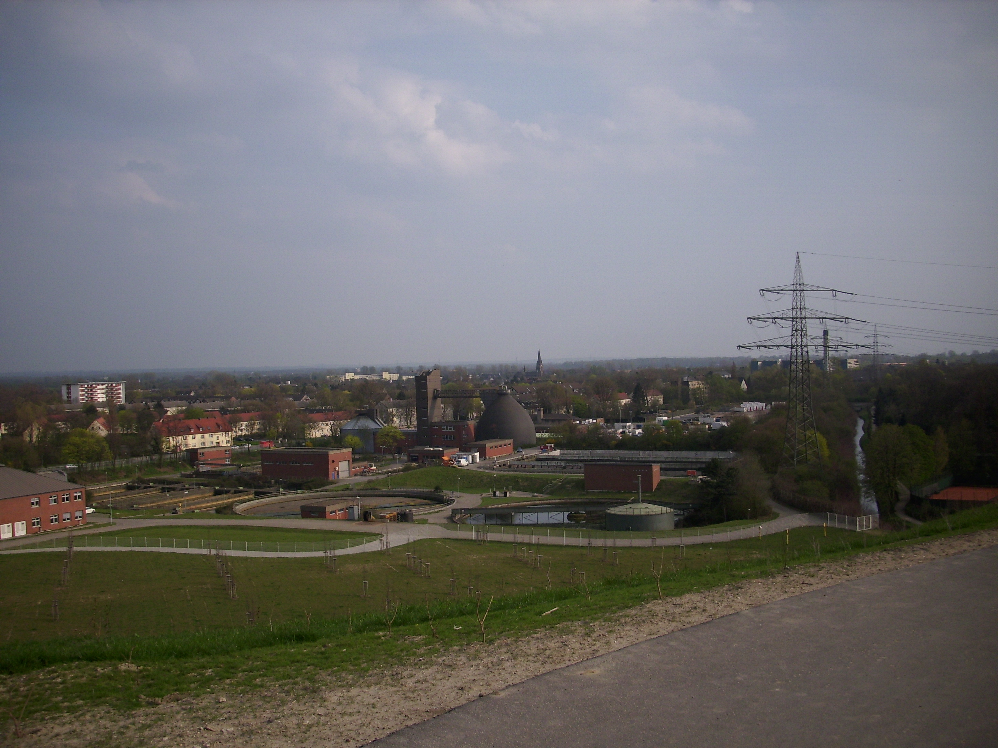 Sewage plant in Duisburg-Huckingen (Germany)